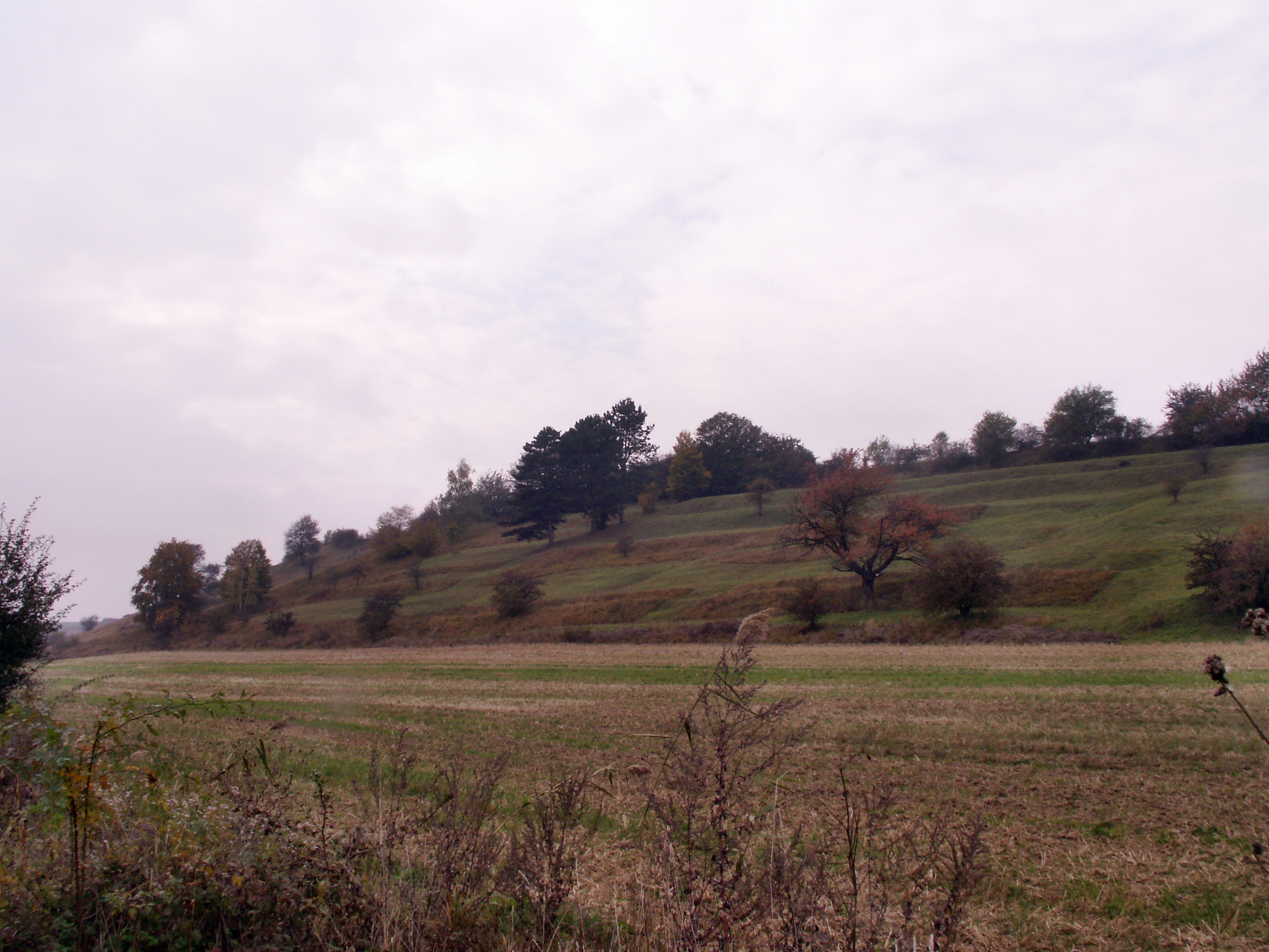 Nature reserve Šévy near Mouřínov, Vyškov District, Czech Republic